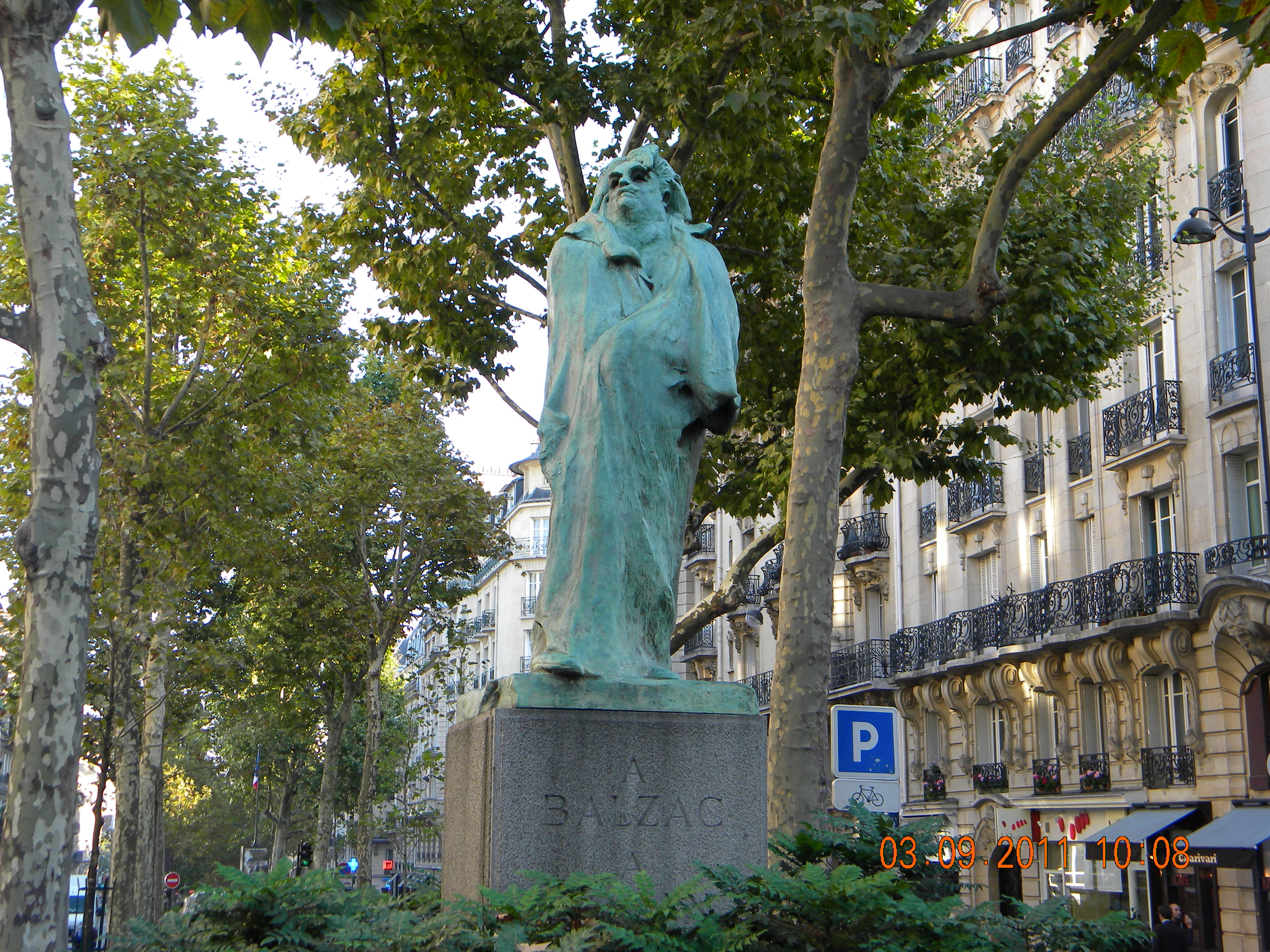 Statue of BALZAC made by RODIN (intersection between Boulevard Raspail and Boulevard du Montparnasse), Paris.